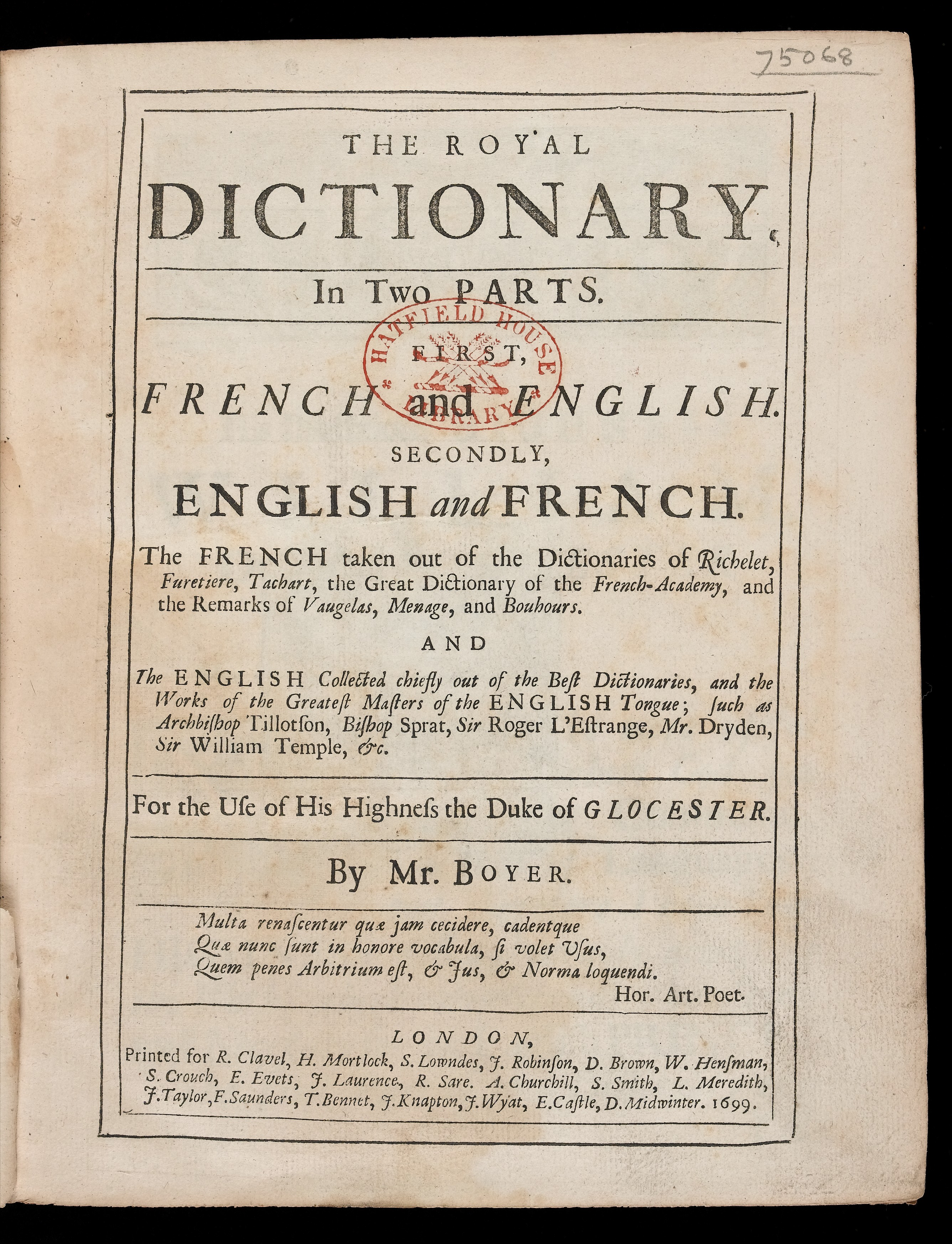 Frontispiece of the Royal Dictionary. Rare Books Keywords: French; Abel Boyer